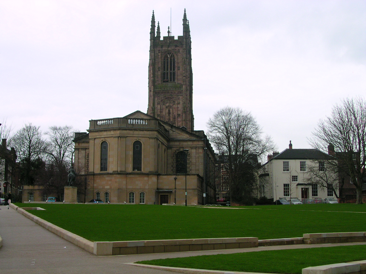 Derby Cathedral, England.